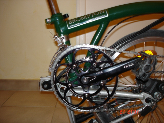 Brompton S6L improved with Huret derailleur and double chainring 34/54 teeth